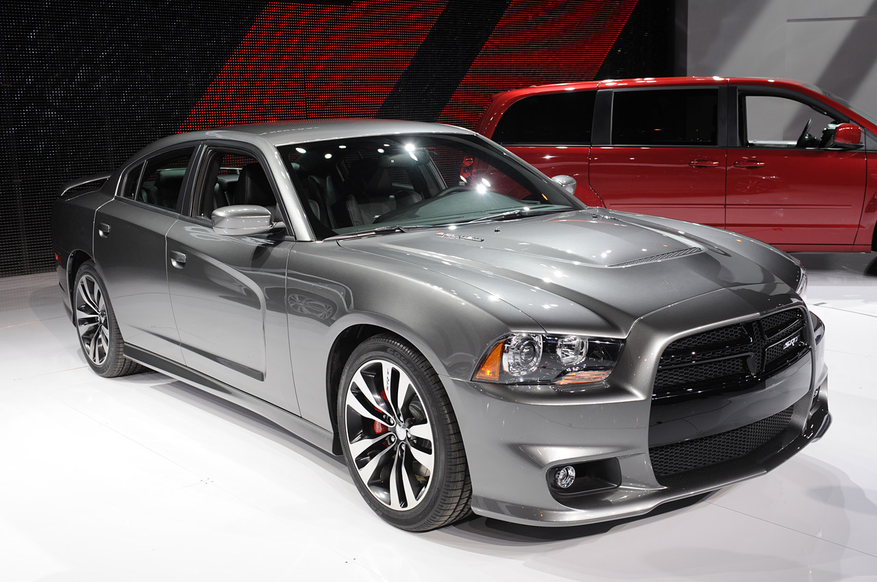 Chicago Auto show 2011 - Dodge Charger SRT-8 6.4L 392 Hemi